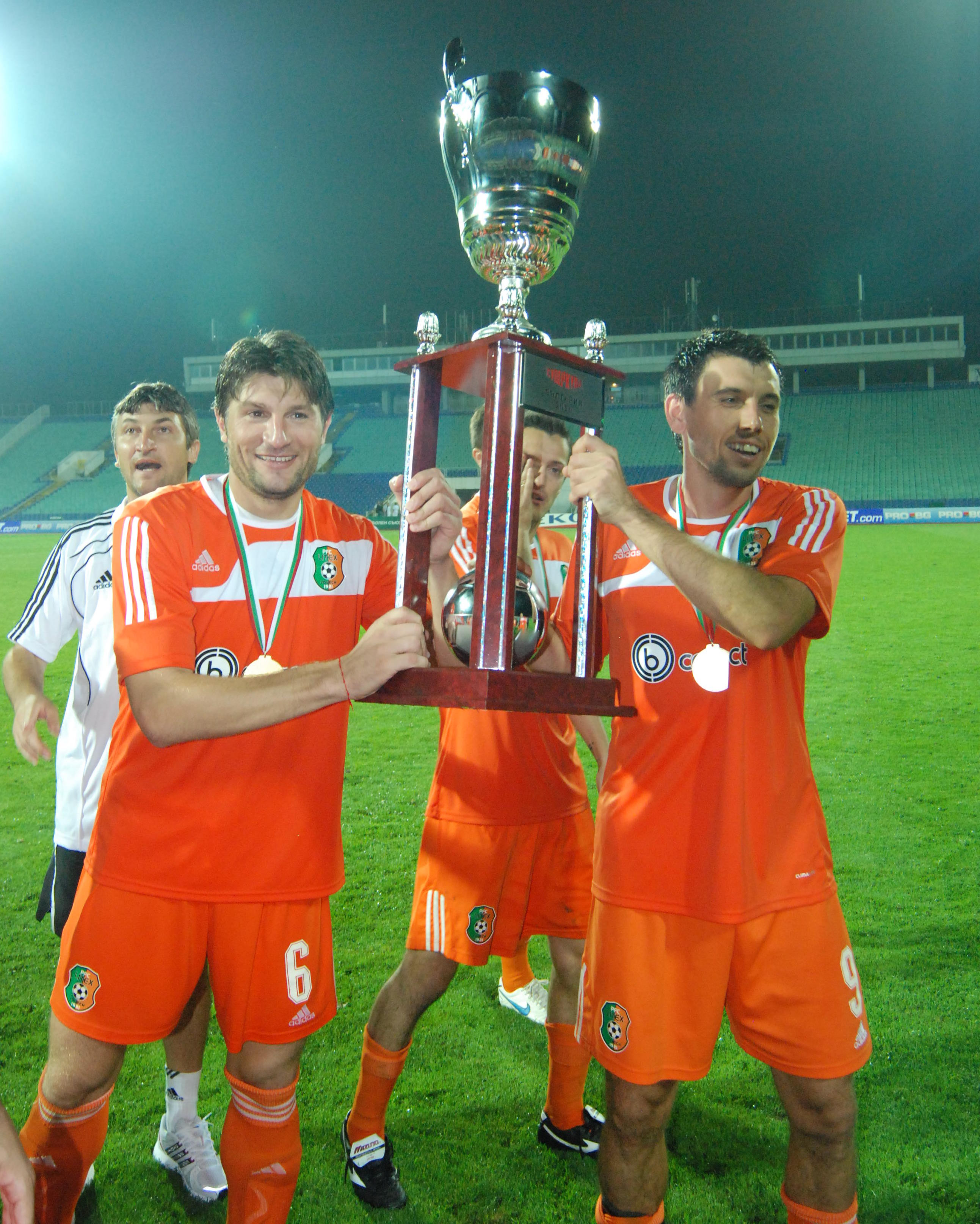 Ivaylo Petkov and Svetoslav Todorov in Supercups of Bulgaria for 2010